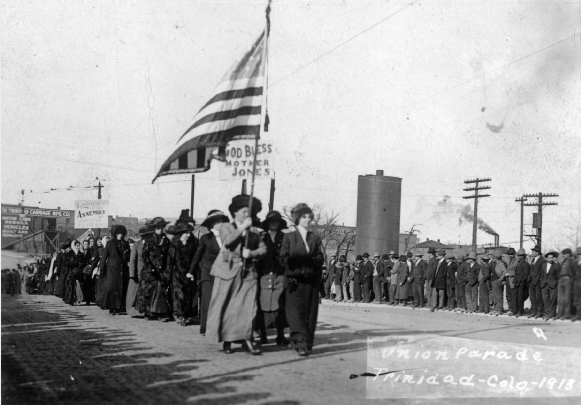 Women march in support of UMW coal miners on strike against CF&I in Trinidad, Las Animas County, Colorado, carrying a United States flag and signs: "God Bless Mother Jones" and "Ladies Assembly of Southern Colorado." Men crowd the sidewalk by a metal tank; lettered brick building reads: "Trinidad Carriage Mfg. Co."